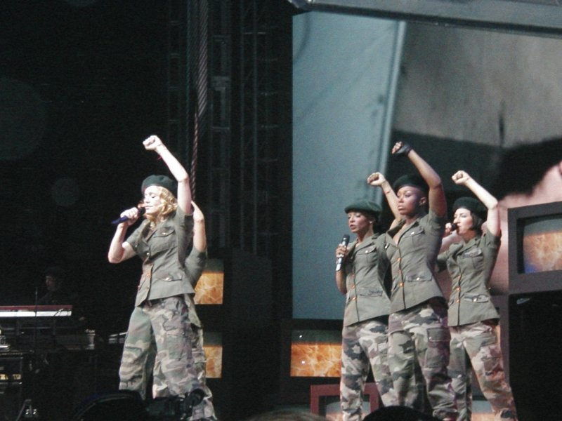 concert